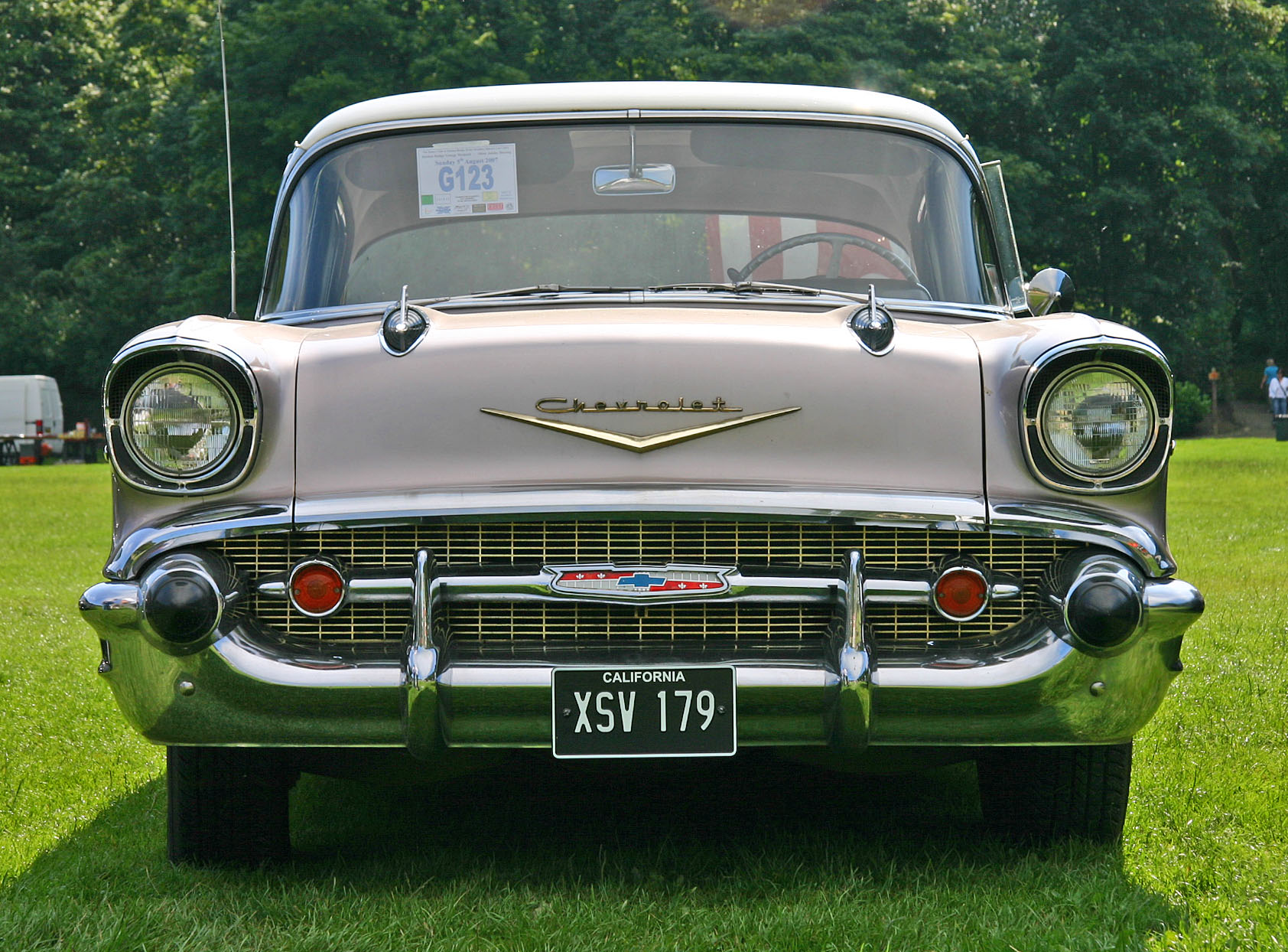 1957 Chevrolet Bel Air four-door sedan: rocketry, the 1957 Bel Air heads for space as the decorations take over the original 1955 body.